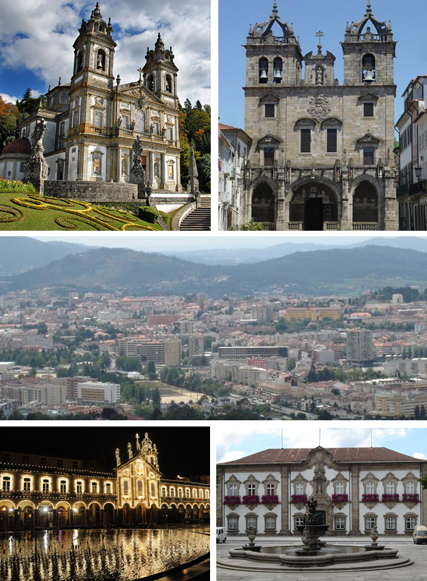 Montage of Braga